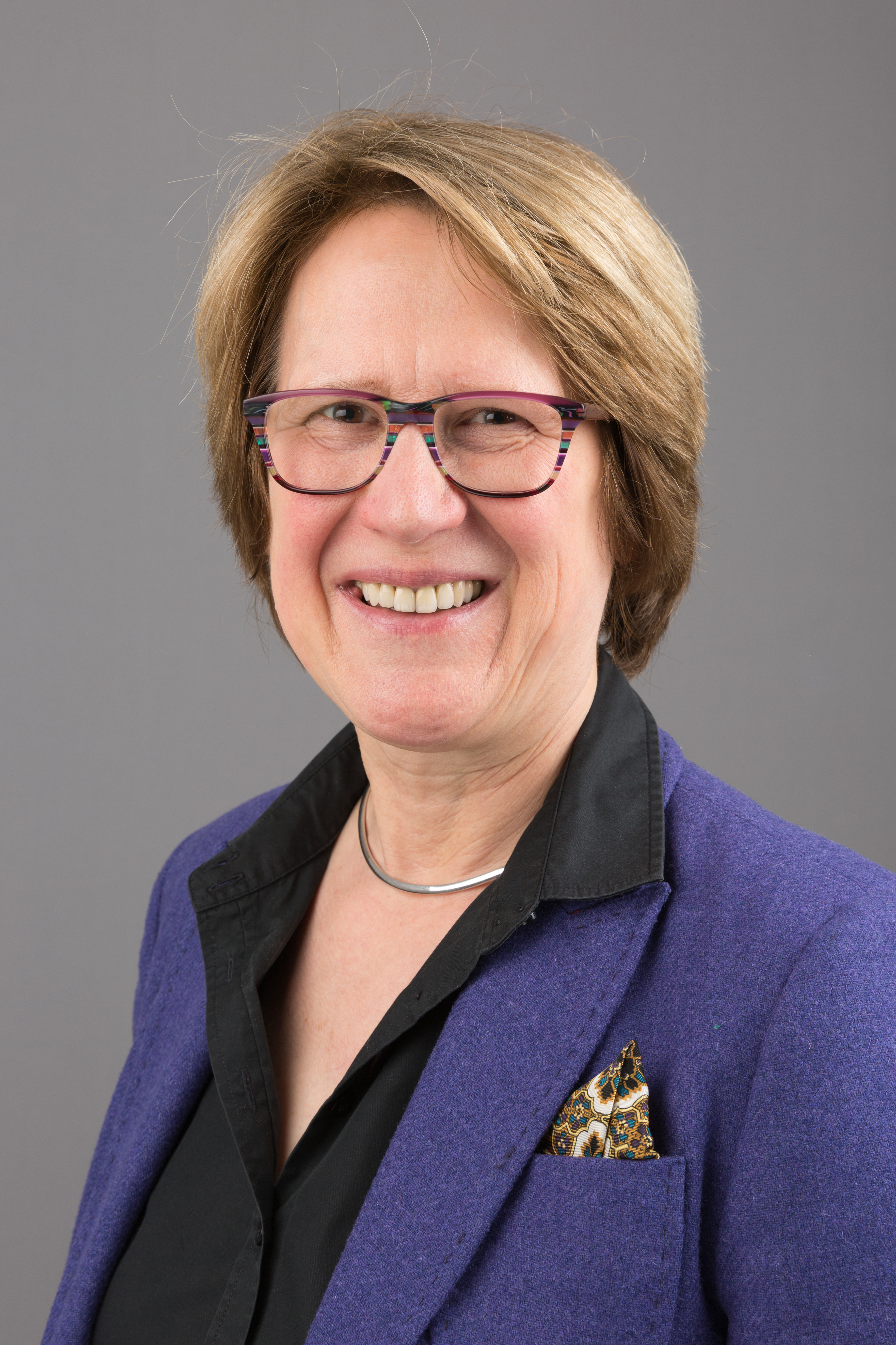 Karin Wolff, member of the Landtag of Hesse